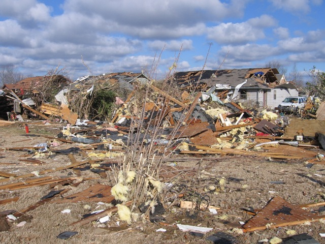 Tornado damage to a subdivision in central Alabama on February 17, 2008. The Prattville/Millbrook tornado was rated an EF3 on the Enhanced Fujita Scale and was one of 32 tornadoes to struck the Southeastern US region on February 17, 2008.